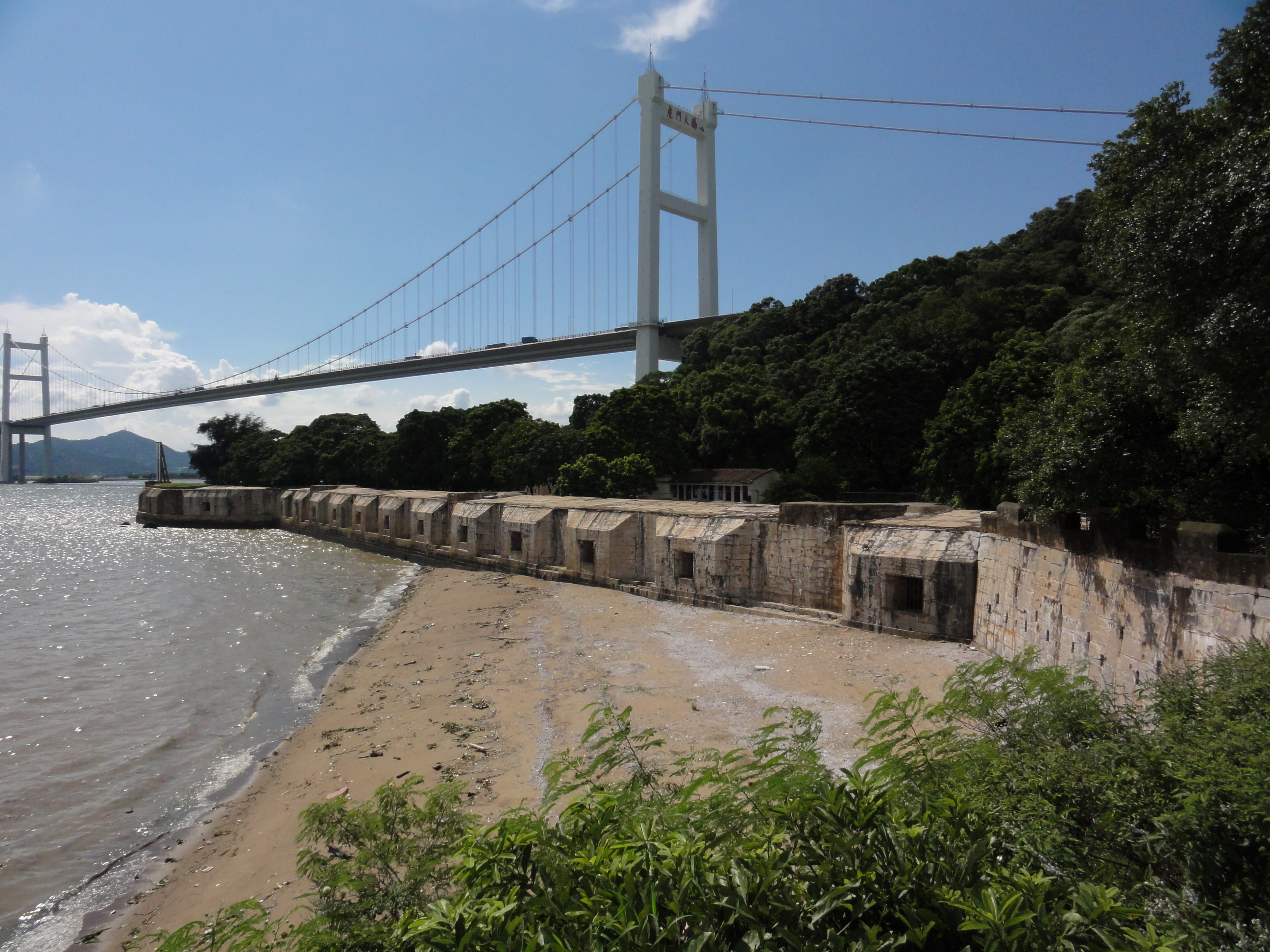 Humen Bridge in Dongguan Original description:由露天砲座回望一條鞭型的雕堡。這一帶其實大小砲台不少，據了解，緊臨江邊的砲座都長這個樣子。